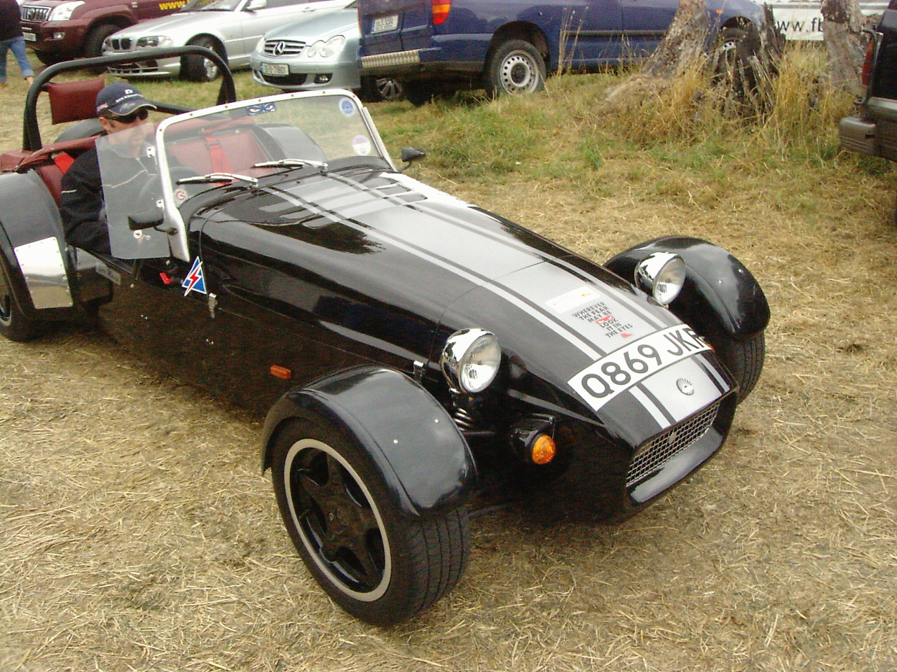 1992 Westfield with 1596cc engine at Phoenix Park, Ireland.